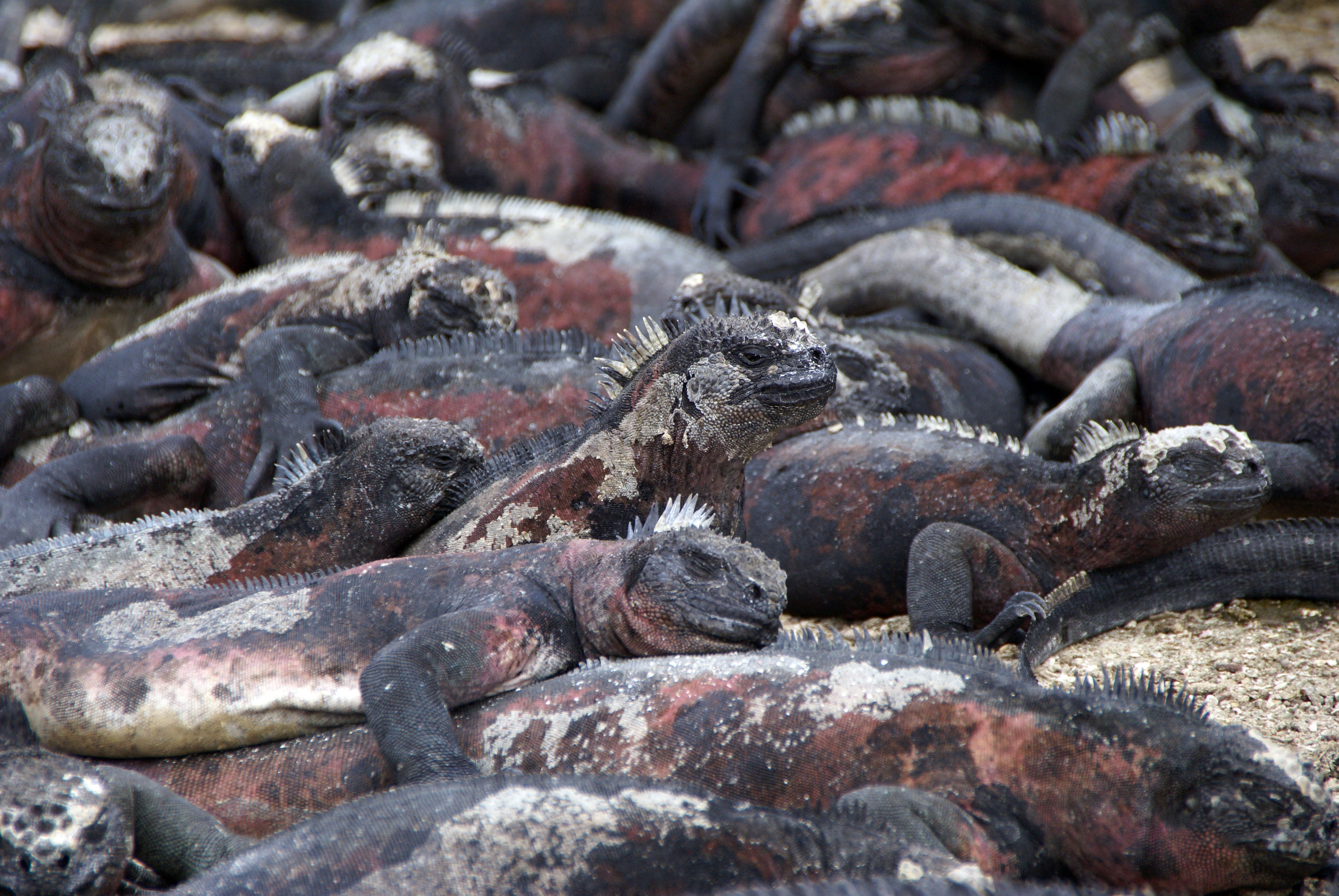 Marine Iguanas (Amblyrhynchus cristatus) on Española island, Galápagos archipelago (Ecuador).